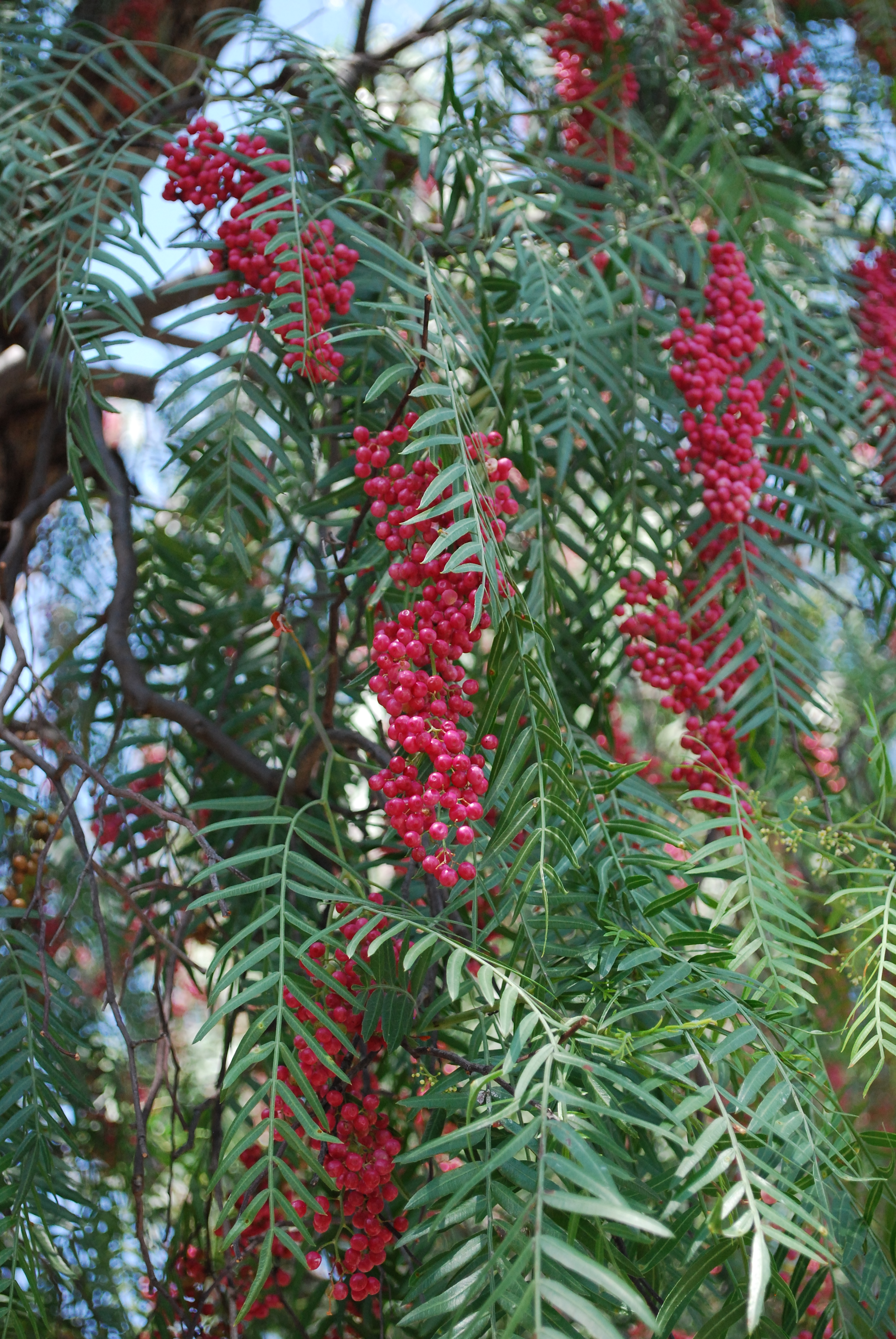 Pirul tree in the Yagul archeological site in Oaxaca, Mexico